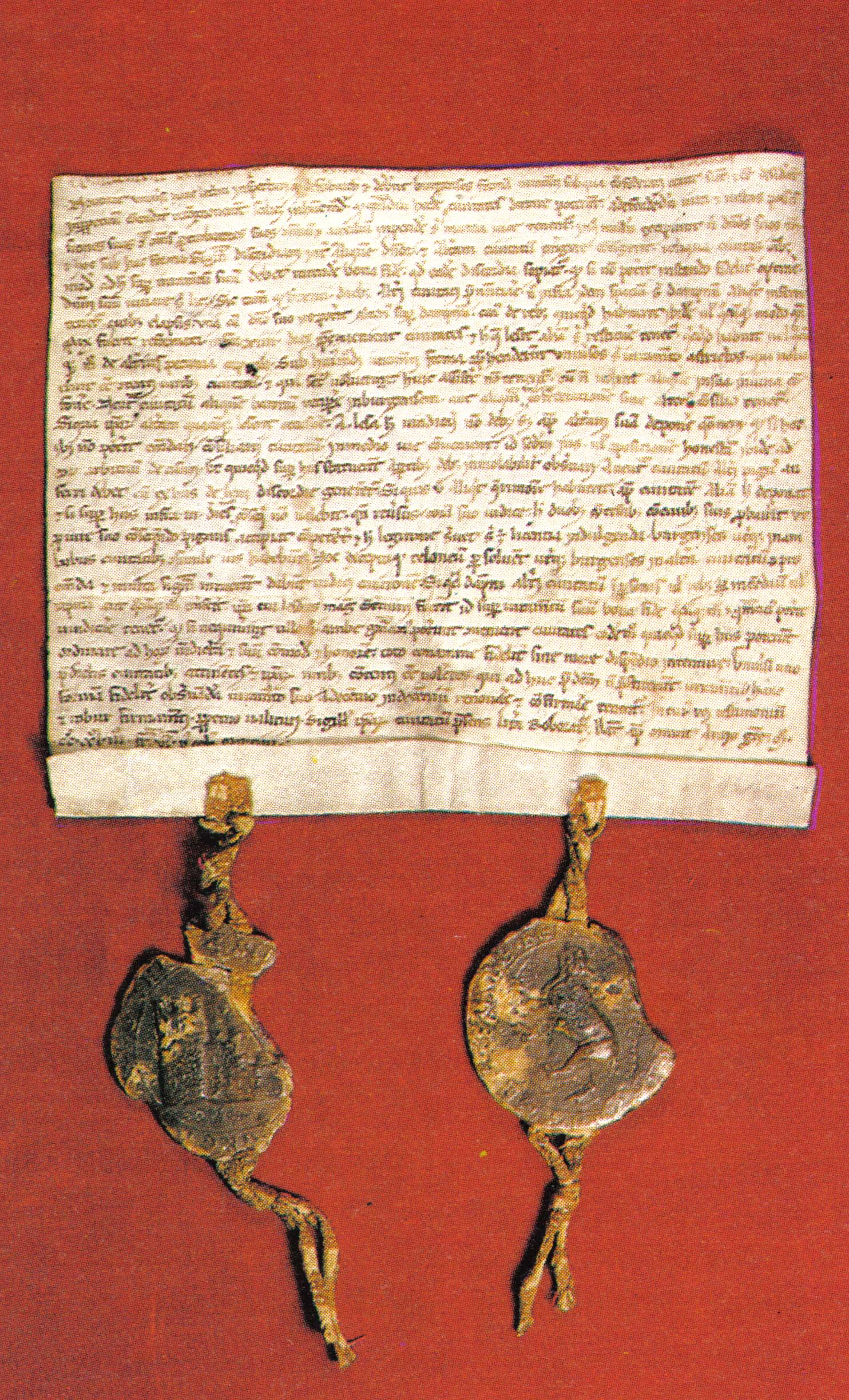 Treaty of Alliance between Berne and Freiburg, 1243. The oldest treaty of Berne and the earliest preserved act of confederation (Bundesbrief) of Switzerland.